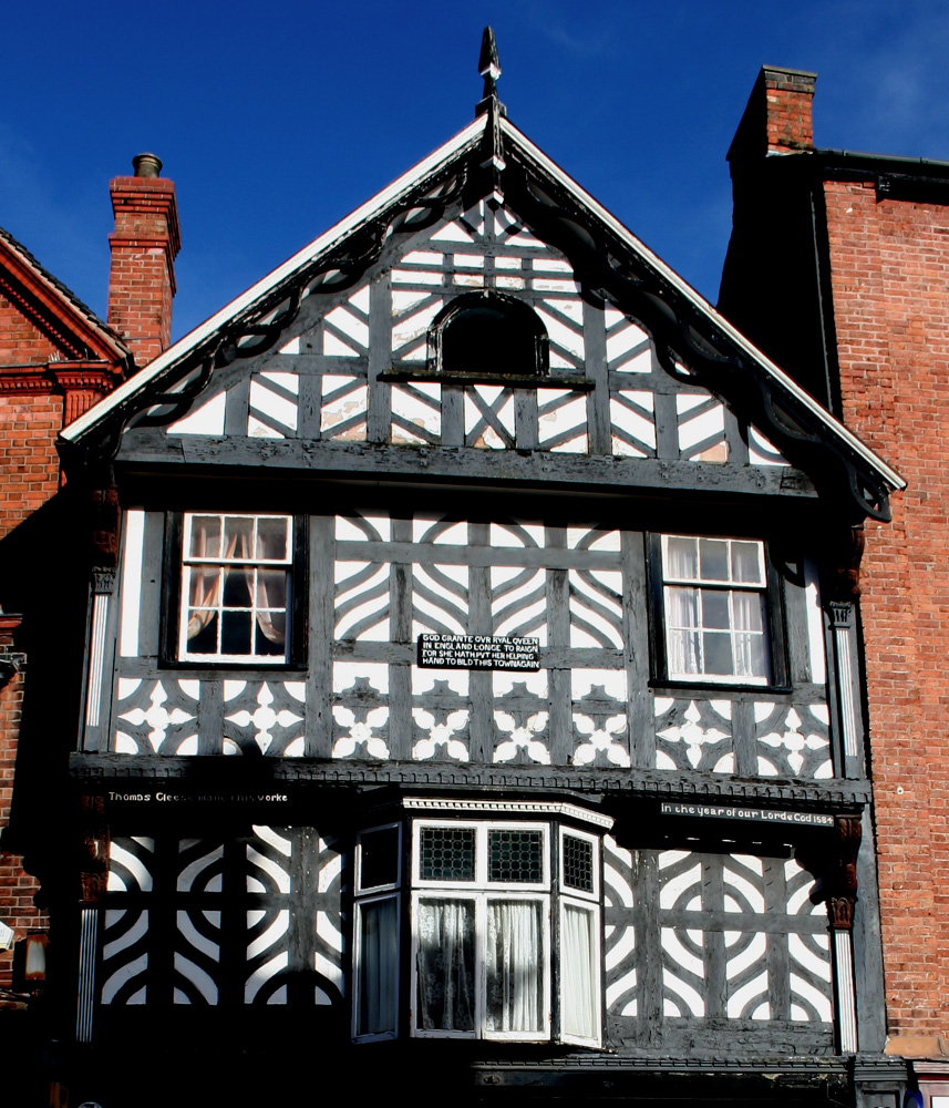 Detail of the Queen's Aid House, Nantwich, Cheshire